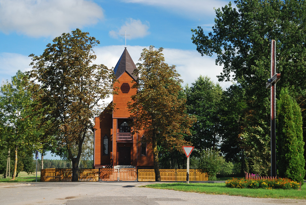 Chapel in Lazdininkai, Lithuania